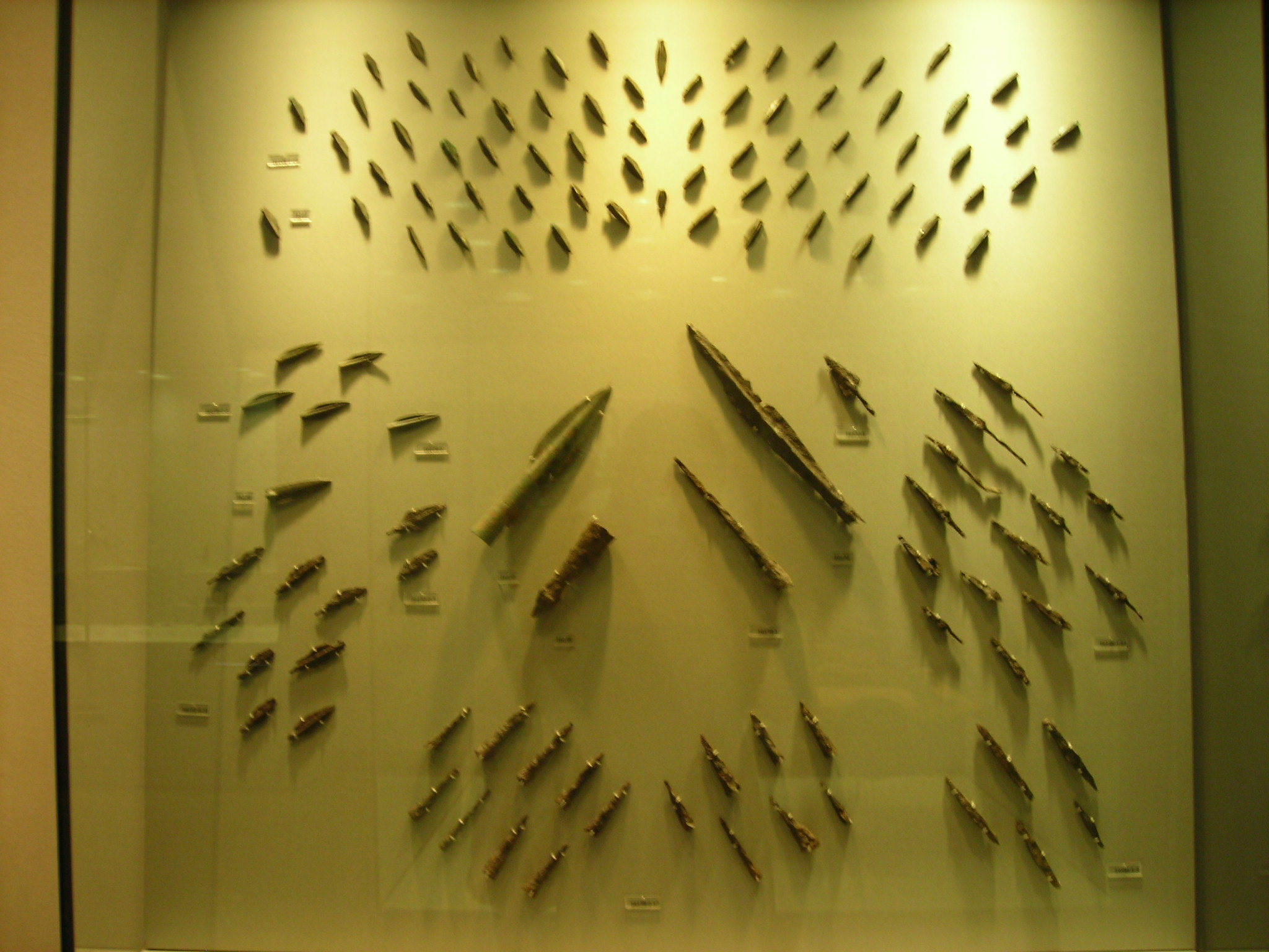 Seven iron arrowheads and spearheads were found in the Koinos hill, where the last defenders of the Thermopyles fell, slain by the arrows of the enermy.